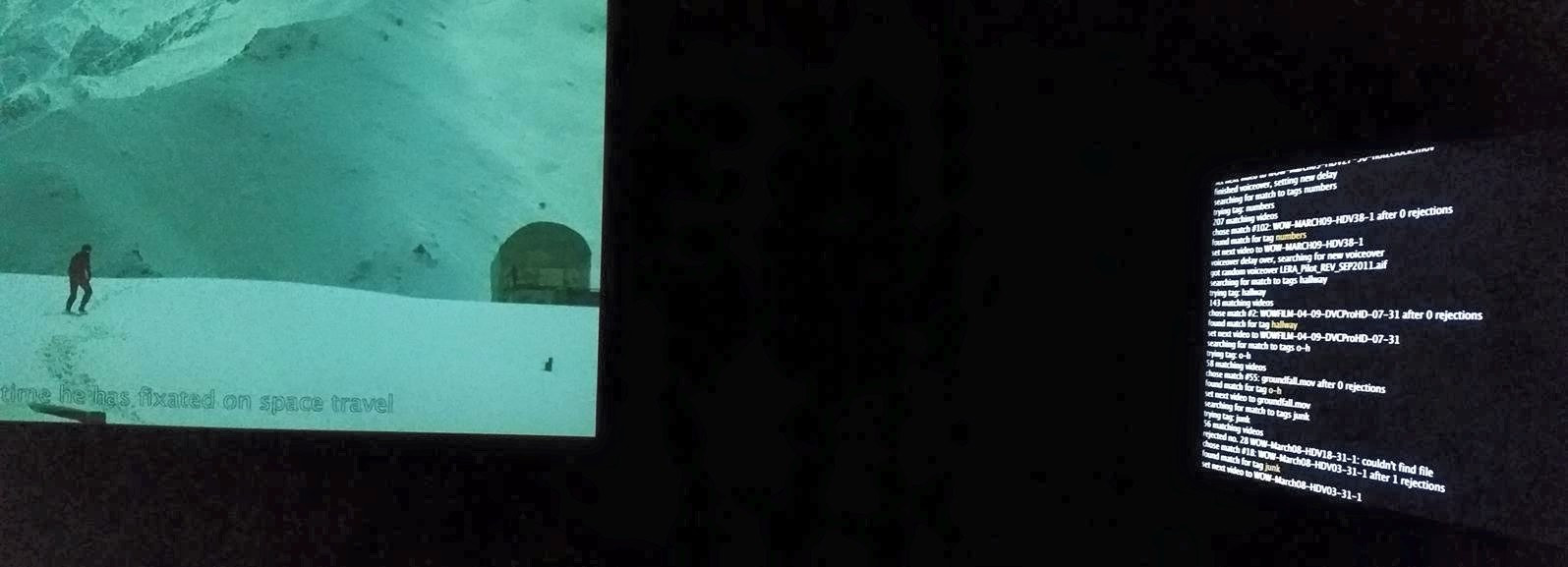 Photo of whiteonwhite:algorithmicnoir, two-channel digital cinema installation by Eve Sussman. The program on the right powers the A/V on the left.